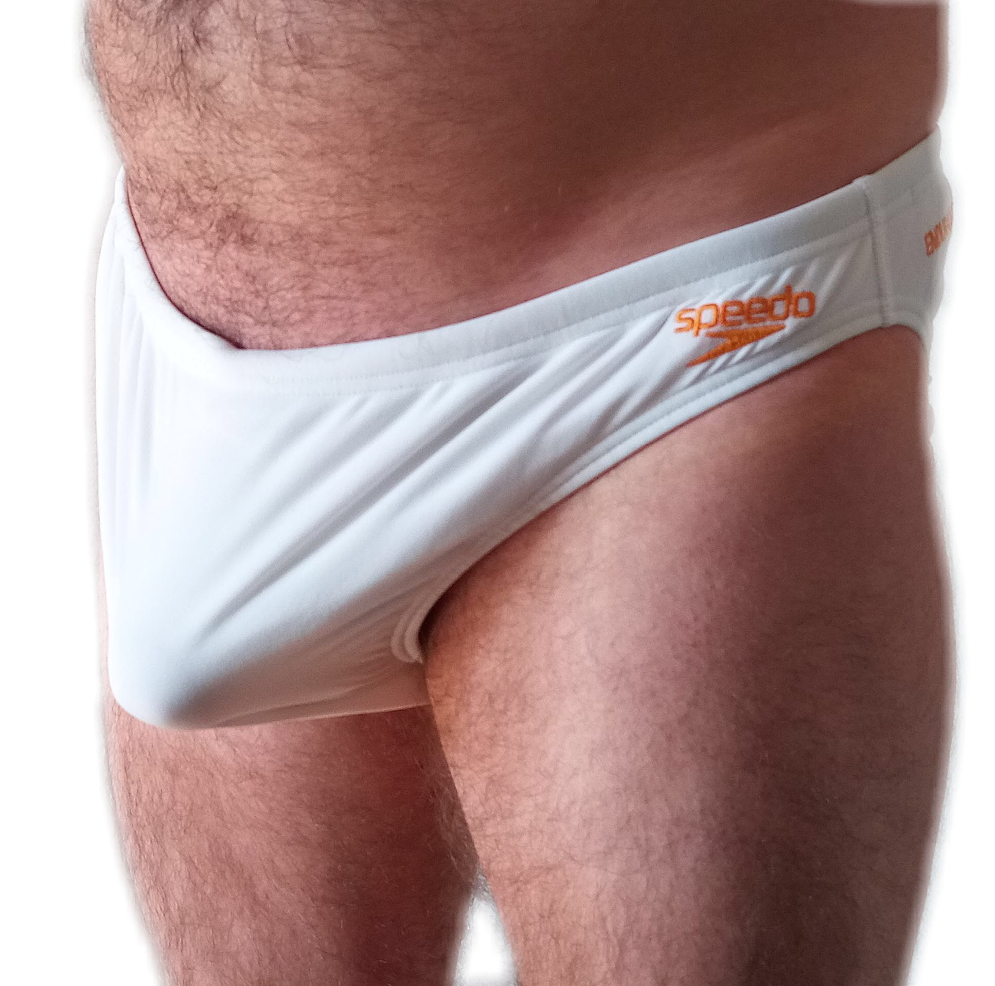 Swim briefs